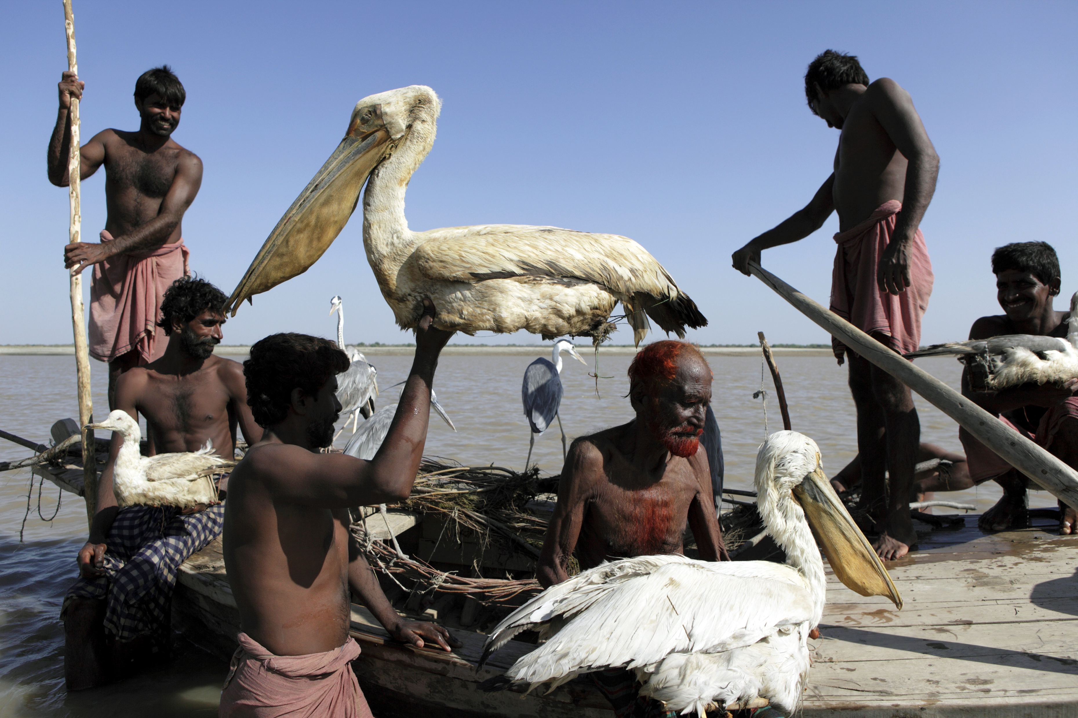 Not far from Mohenjo-Daro (or Mohenjodaro) - - These Mohana fishermen/hunters use lures from real birds to catch more birds. They will either eat them or sell them. Mohenjodaro, Pakistan